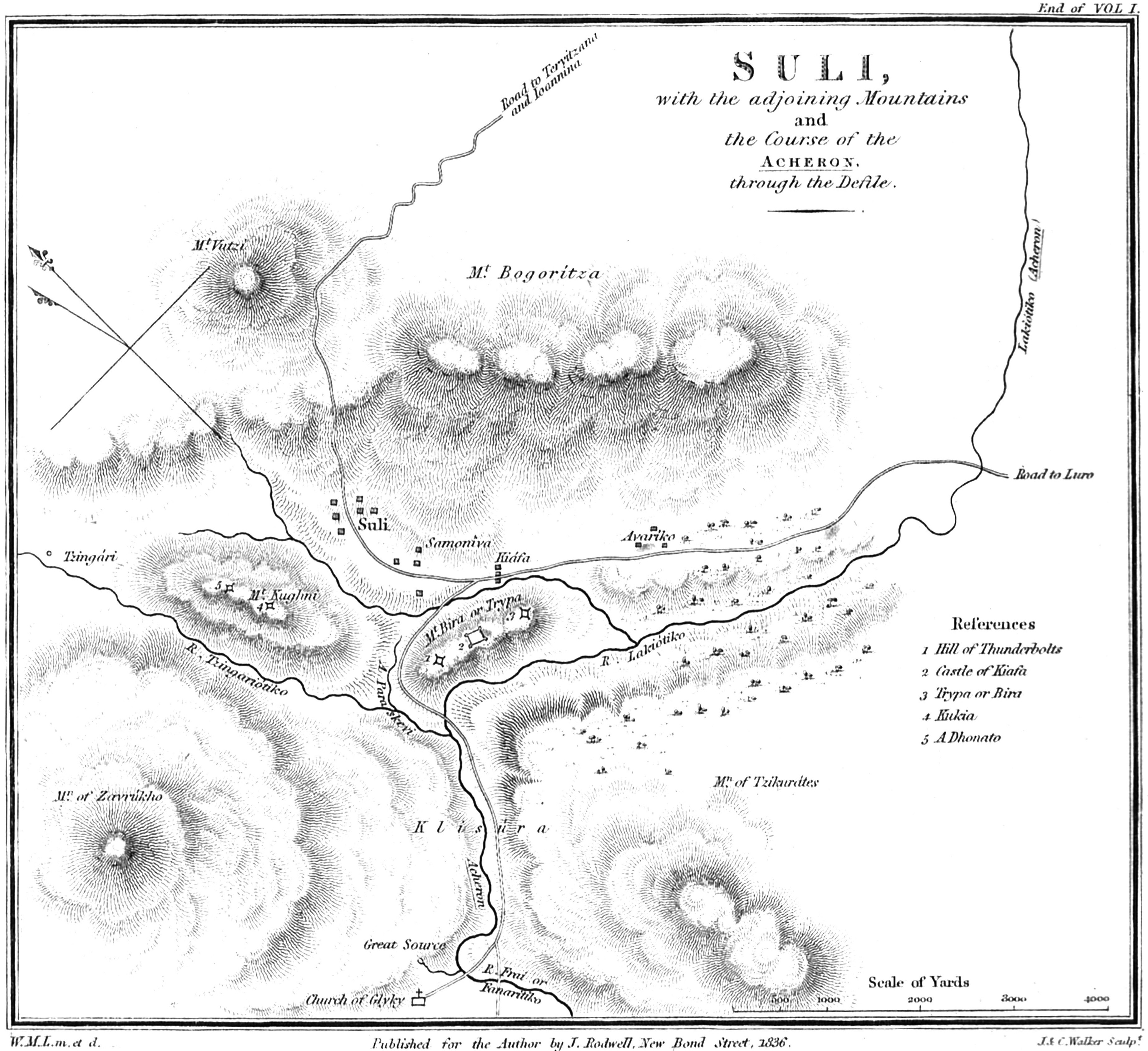 Map of Souli and the adjoining mountains and the course of the Acheron